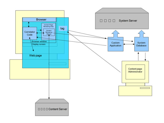 Content Rendering Control System and Method Figure